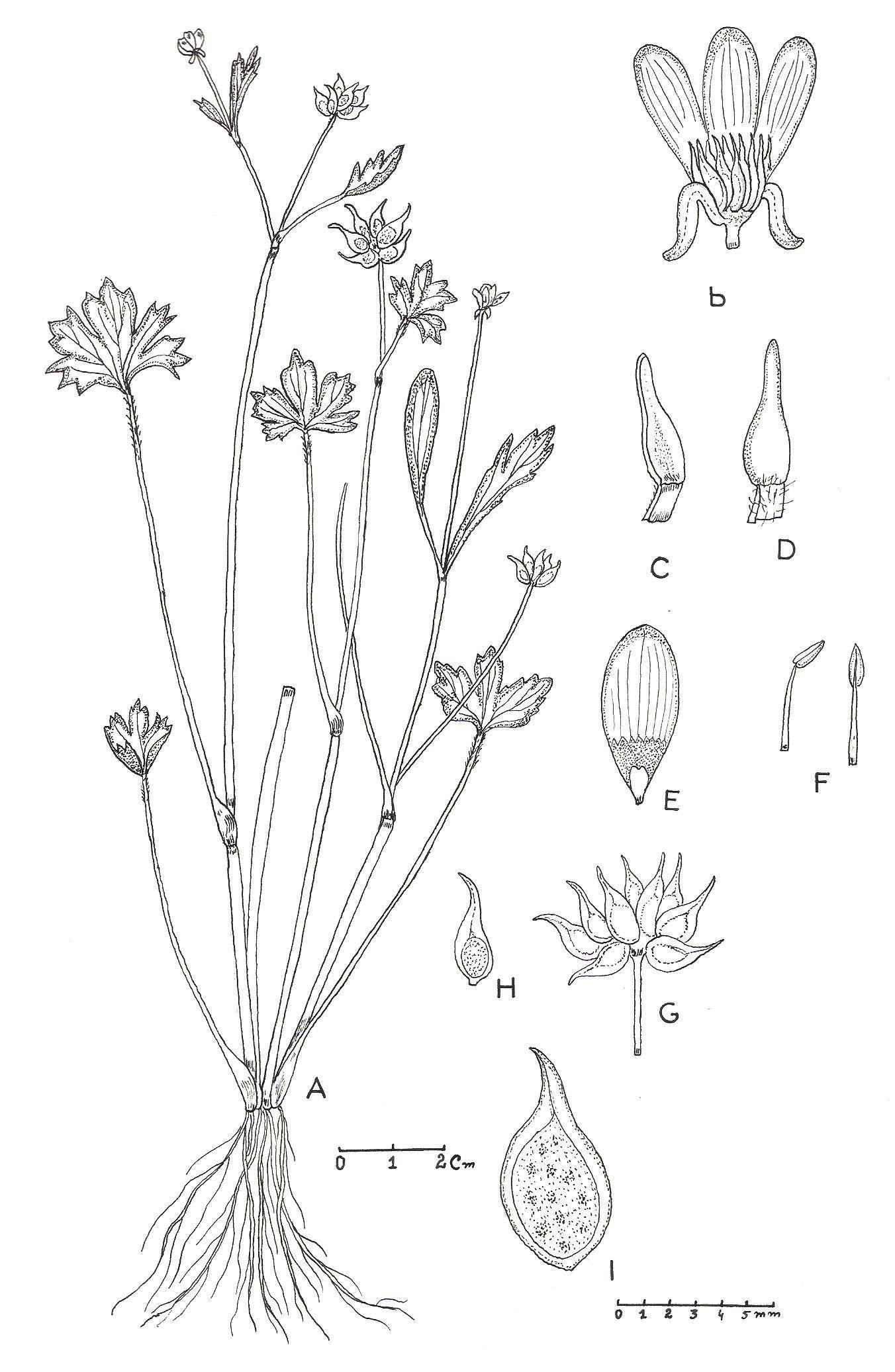 Species resembles R. muricatus superficially, but differs markedly on the basis of following characters: 1. Plant body erect, never diffused or prostrate. 2. Stem leaf base and receptacles glabrous, never long ciliated or hairy. 3. Achenes without spines (smooth). Distribution Kashmir